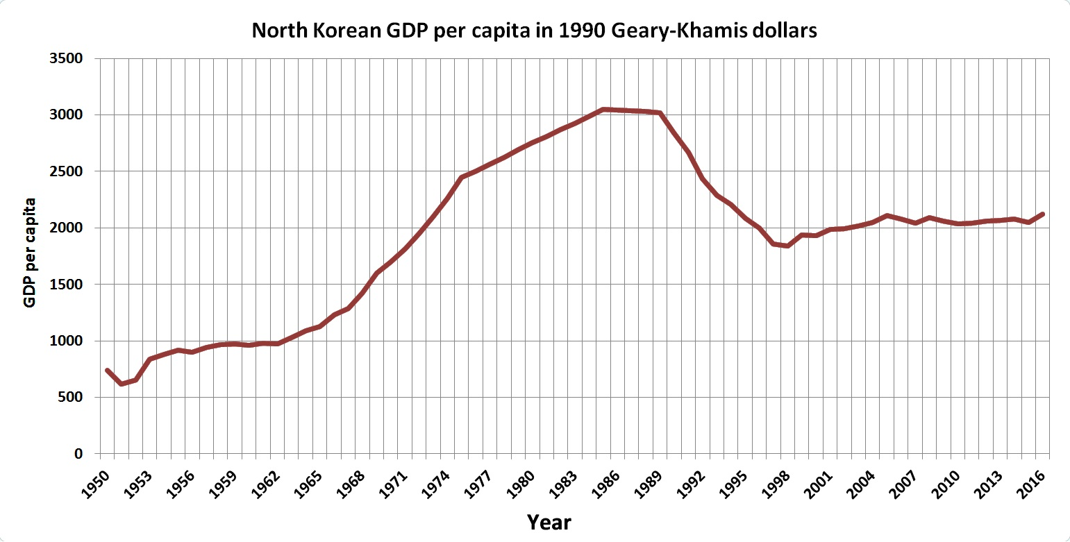 North Korean GDP per capita 1950-2016 in Geary-Khamis dollars